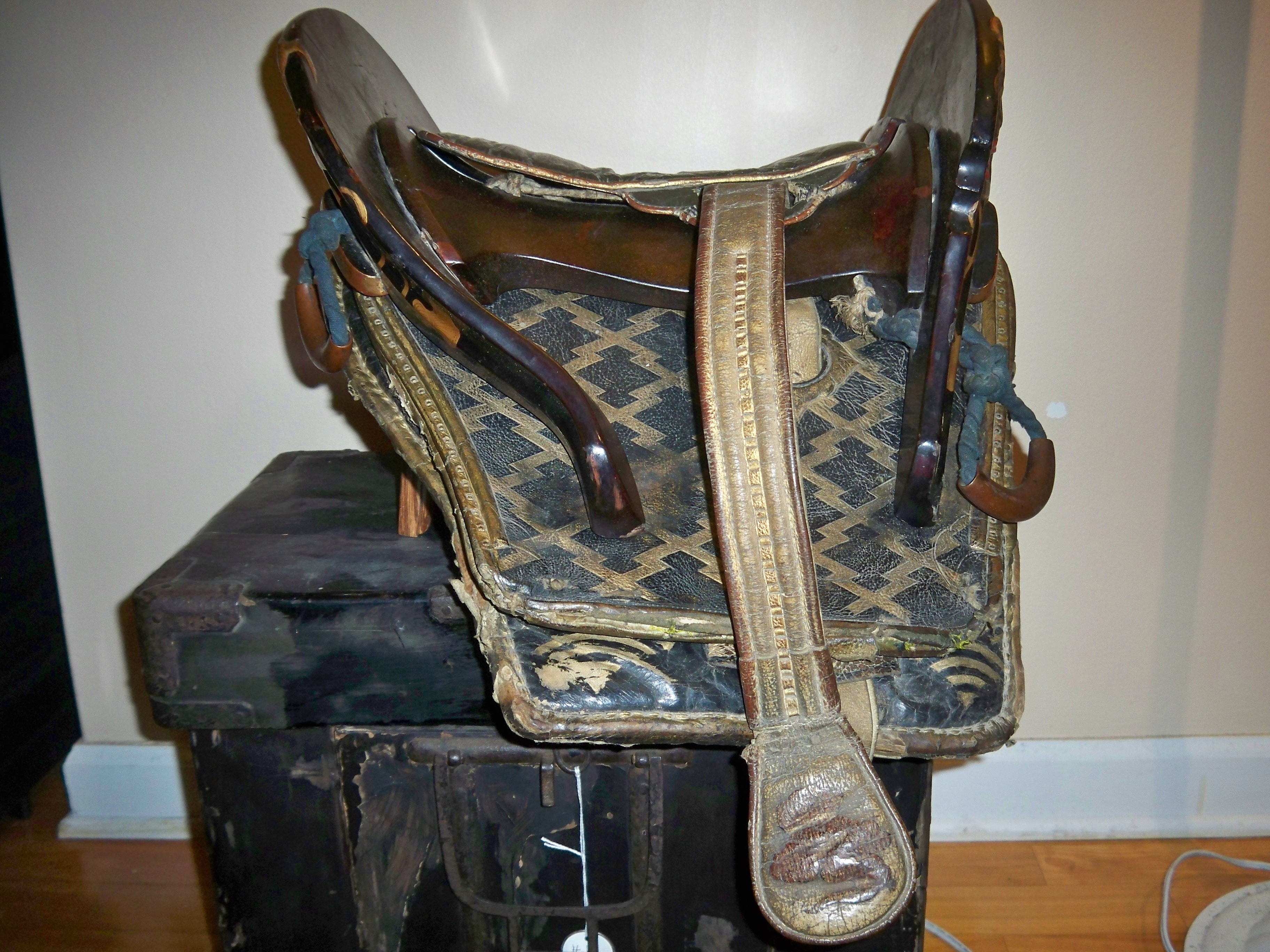 =Antique samurai kura (saddle), showing the chikara-gawa or gekiso (stirrup strap), kura tsubo or basen (saddle seat), hadazuke or shita-kura (double saddle pads), kurabane (saddle tree), shiode or shiho-de (tie downs).